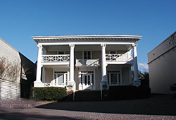 Title: Entrance to Dr. Marion Luther Brittain, Sr., House, once owned by Marion L. Brittain Author: National Register photograph by Yen Tang